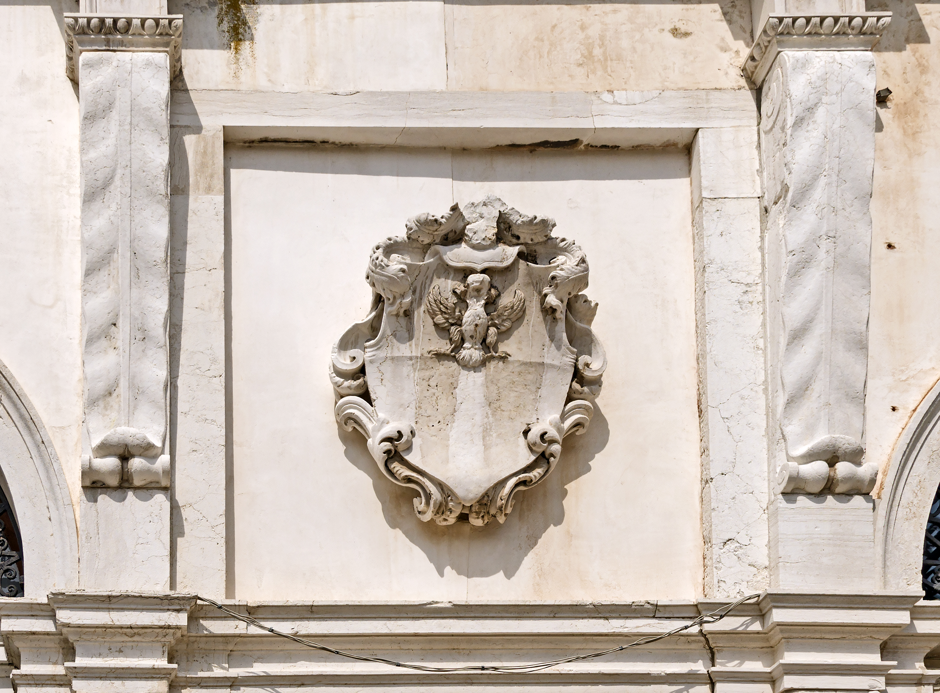 Palace Contarini dal Zaffo in Venice - The Palace is located in the district of Cannaregio, between Madonna dell'Orto and Sacca della Misericordia. Built in the sixteenth century by the family Contarini Dal Zaffo, it now houses the Piccola Casa della Divina Provvidenza. Coat-of-arms Facade.